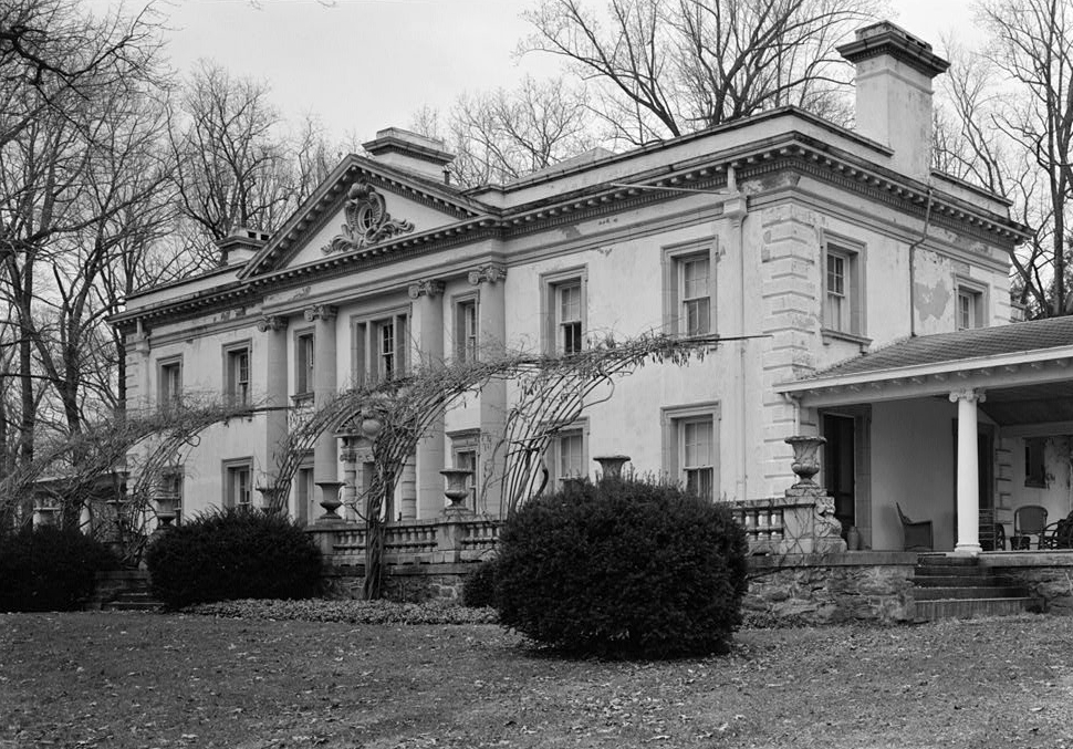 Liriodendron, Bel Air, Maryland, USA. Cropped.